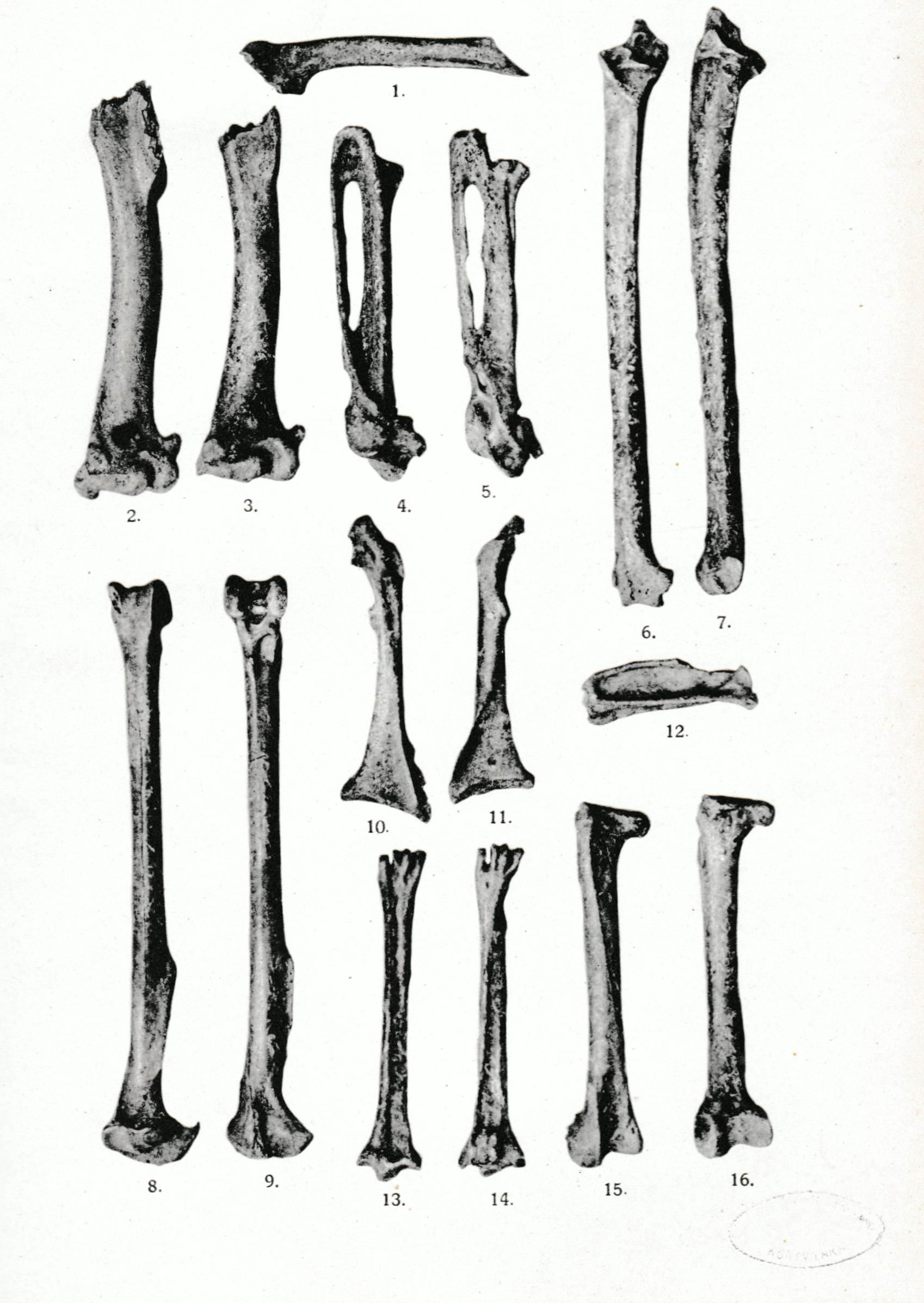 Raven bones from Remete-hegyi Niche.